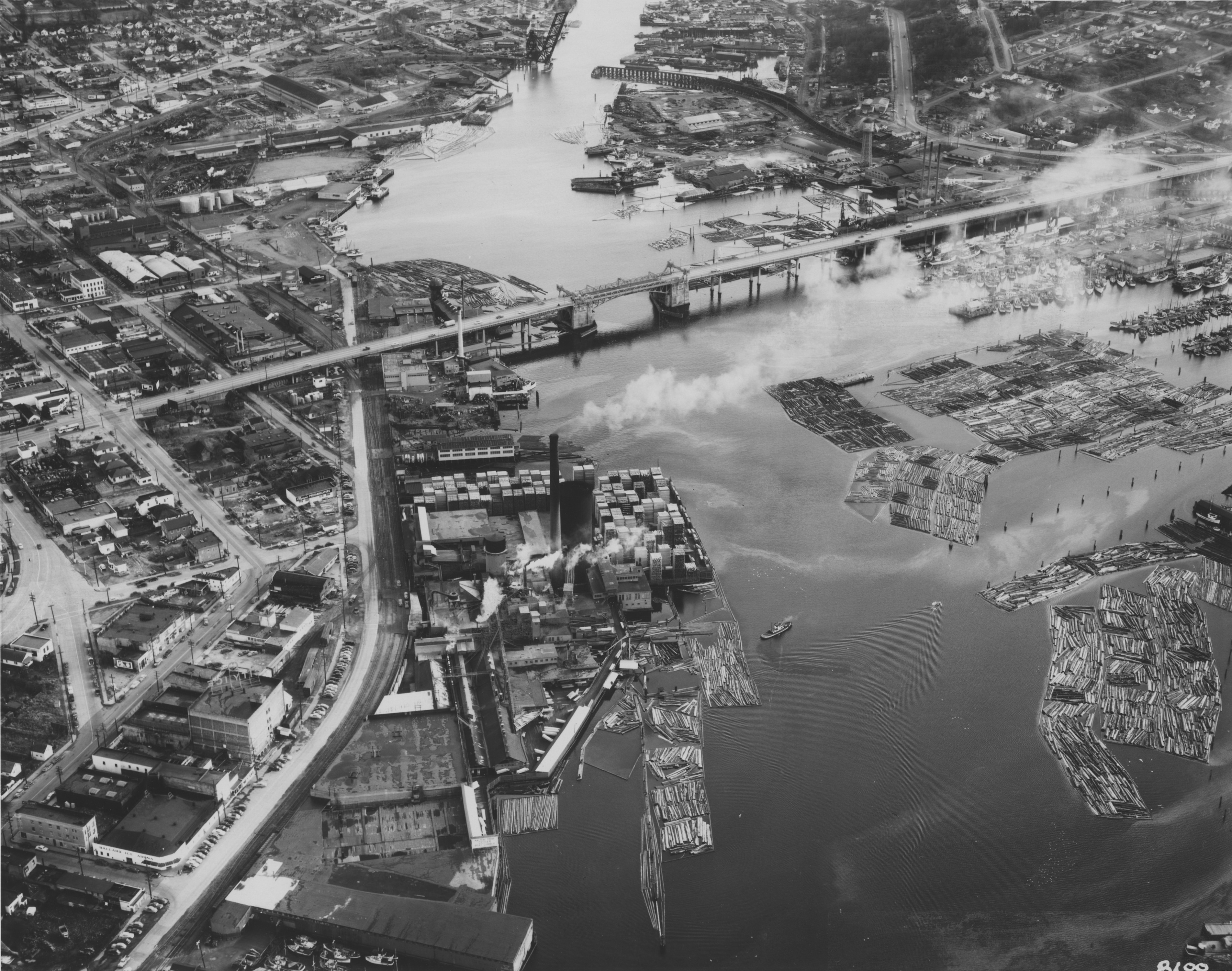 Aerial of Ballard Bridge and Salmon Bay, Seattle, Washington, U.S., 1950. Looking roughly east. At top of frame is the Northern Pacific Railroad Ship Canal Bridge (which was there 1914-1976).